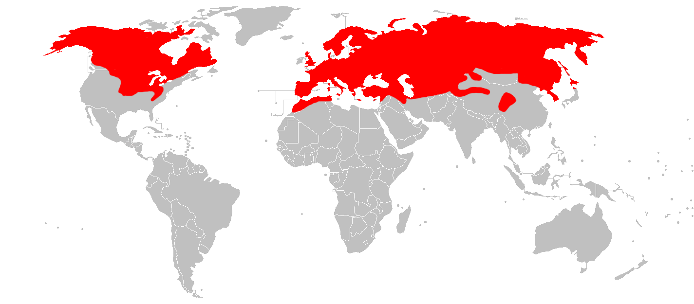 Distribution map of Mustela nivalis.